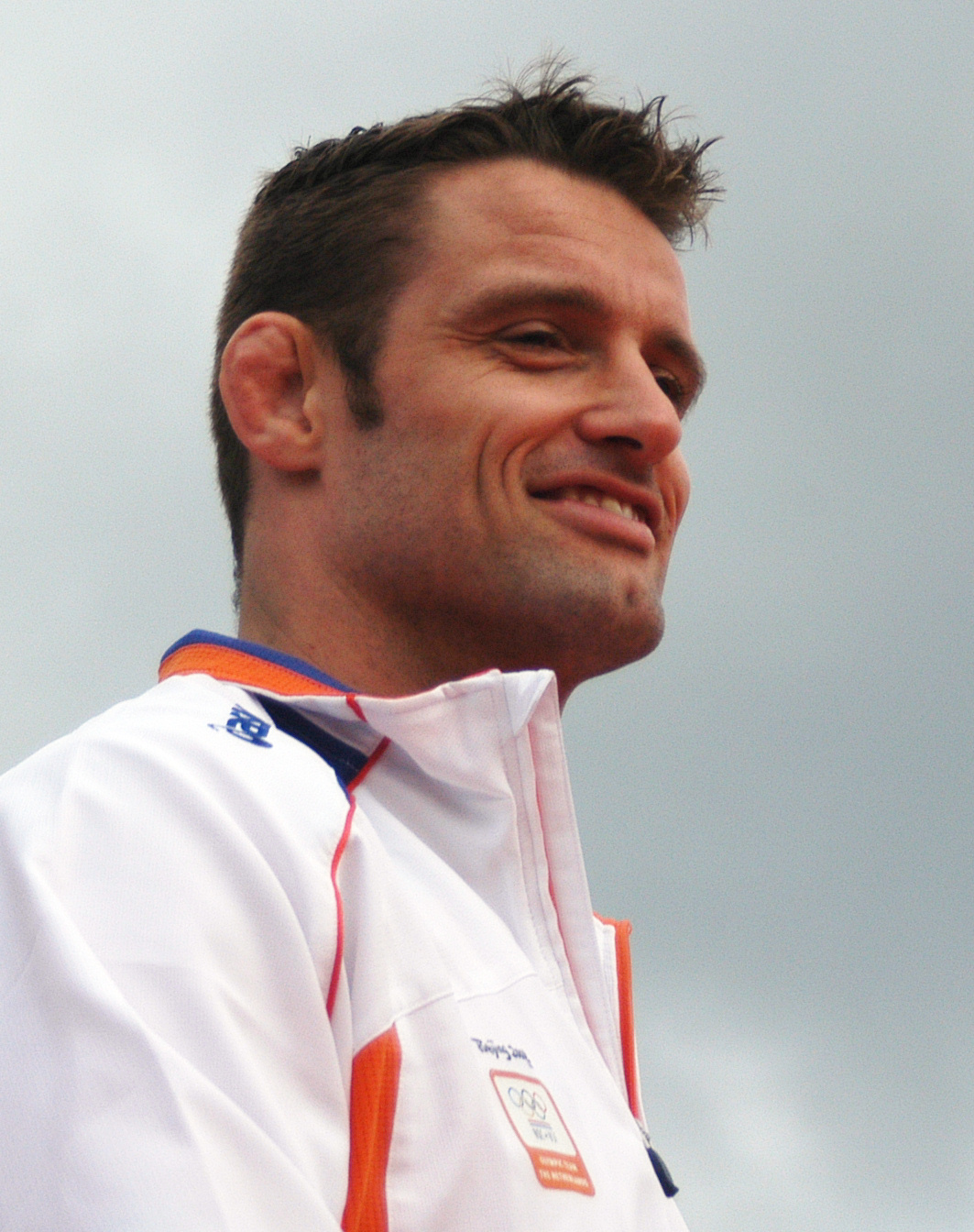 Mark Huizinga at the Olympic welcome in the Olympic Stadium in Amsterdam, the Netherlands